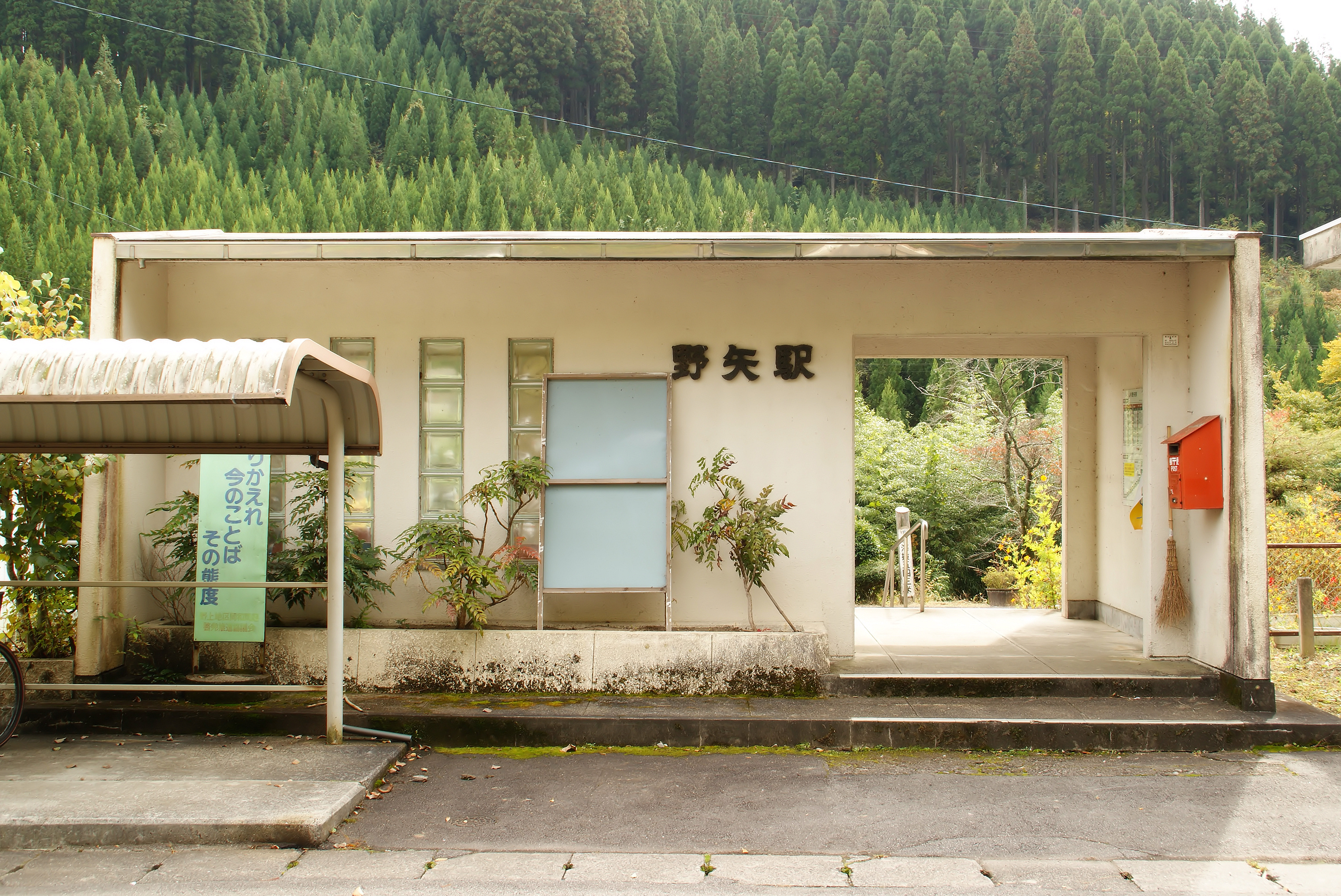 Kyushu Railway, Noya Station.(Kokonoe Town, Oita Prefecture, Japan)